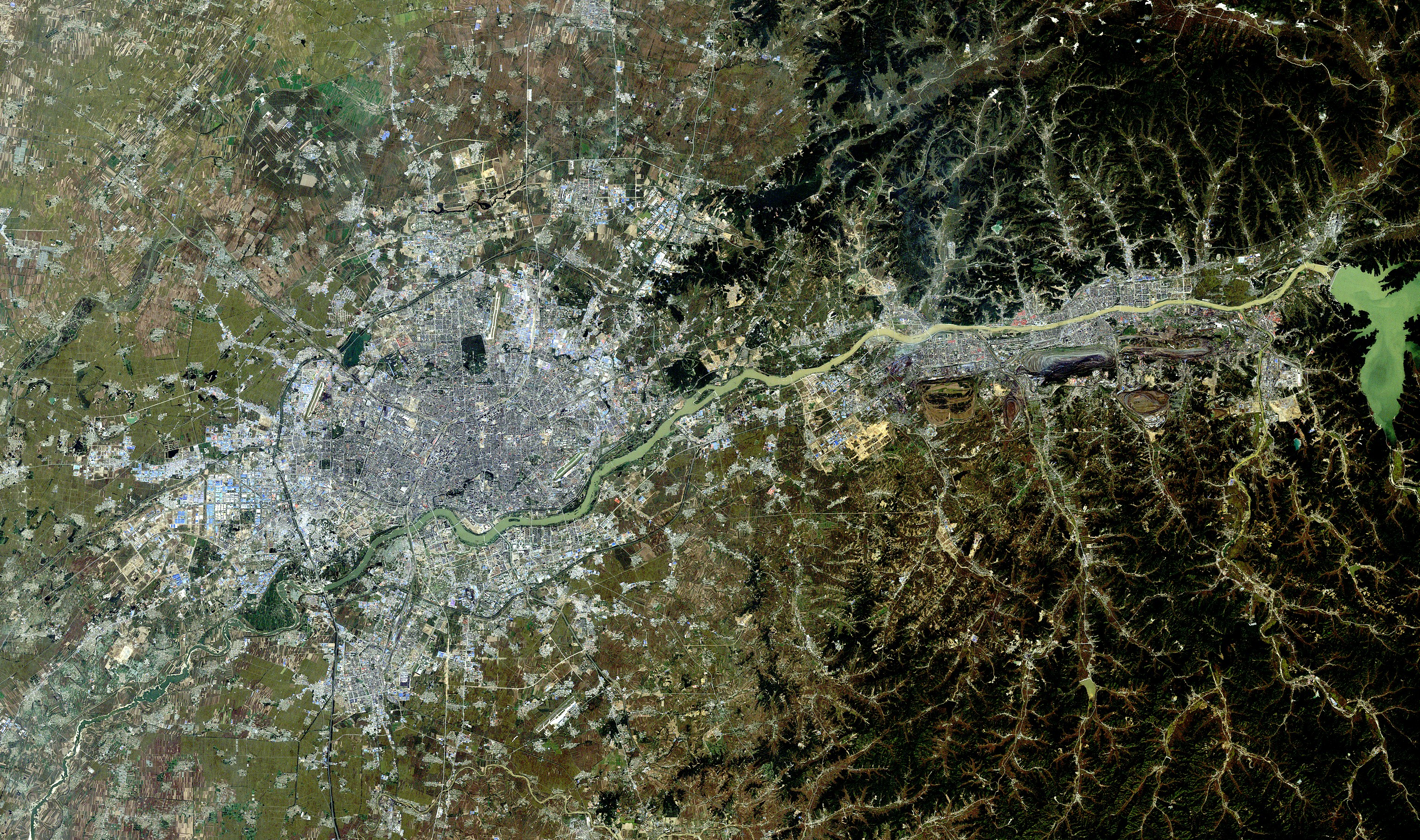 Shenyang-Fushun urban agglomeration (China) satellite image, LandSat-5, near natural colors, 30m resolution